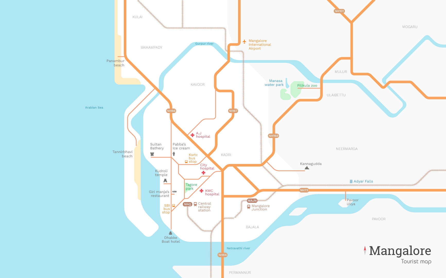 A schematic map showing the tourist places in Mangalore city.